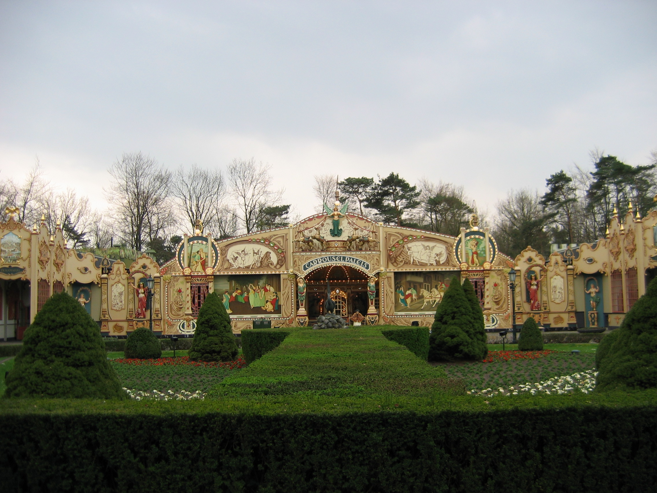 Steam Caroussel from Janvier in Efteling